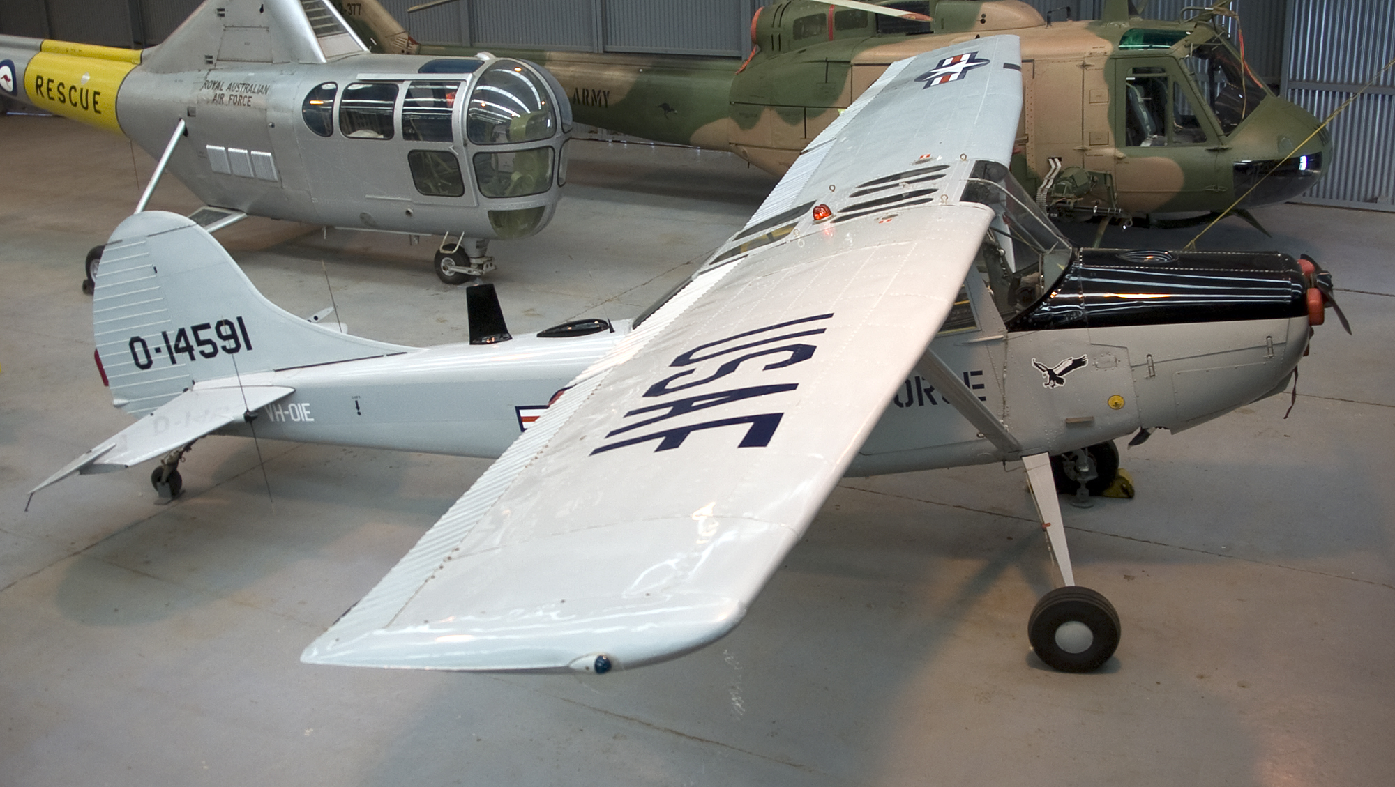 Cessna O-1F Bird Dog (305E) - 0-14591 (VH-OIE) at the RAAF Museum.